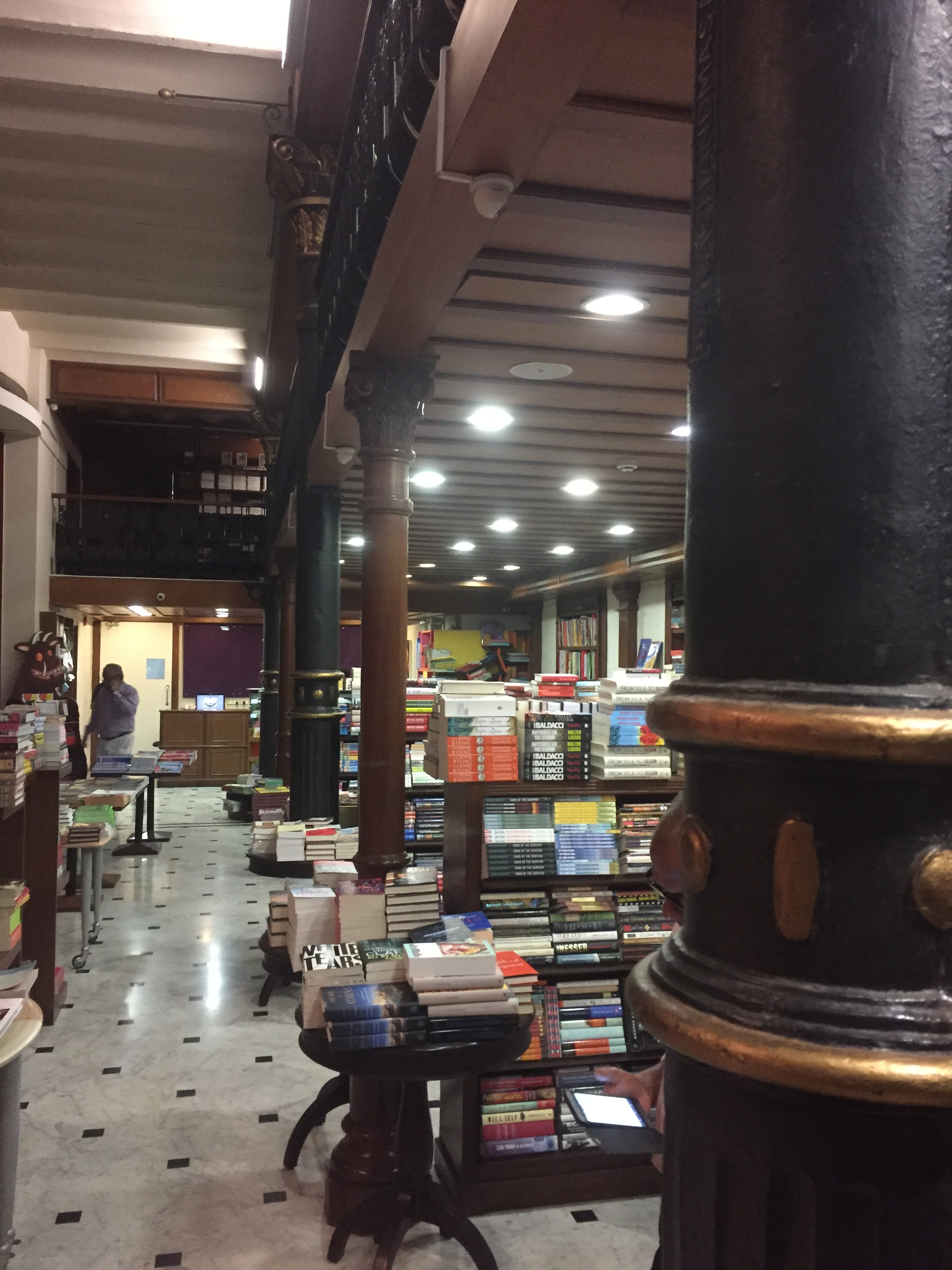 Kitab Khana Bookshop Mumbai - inner view